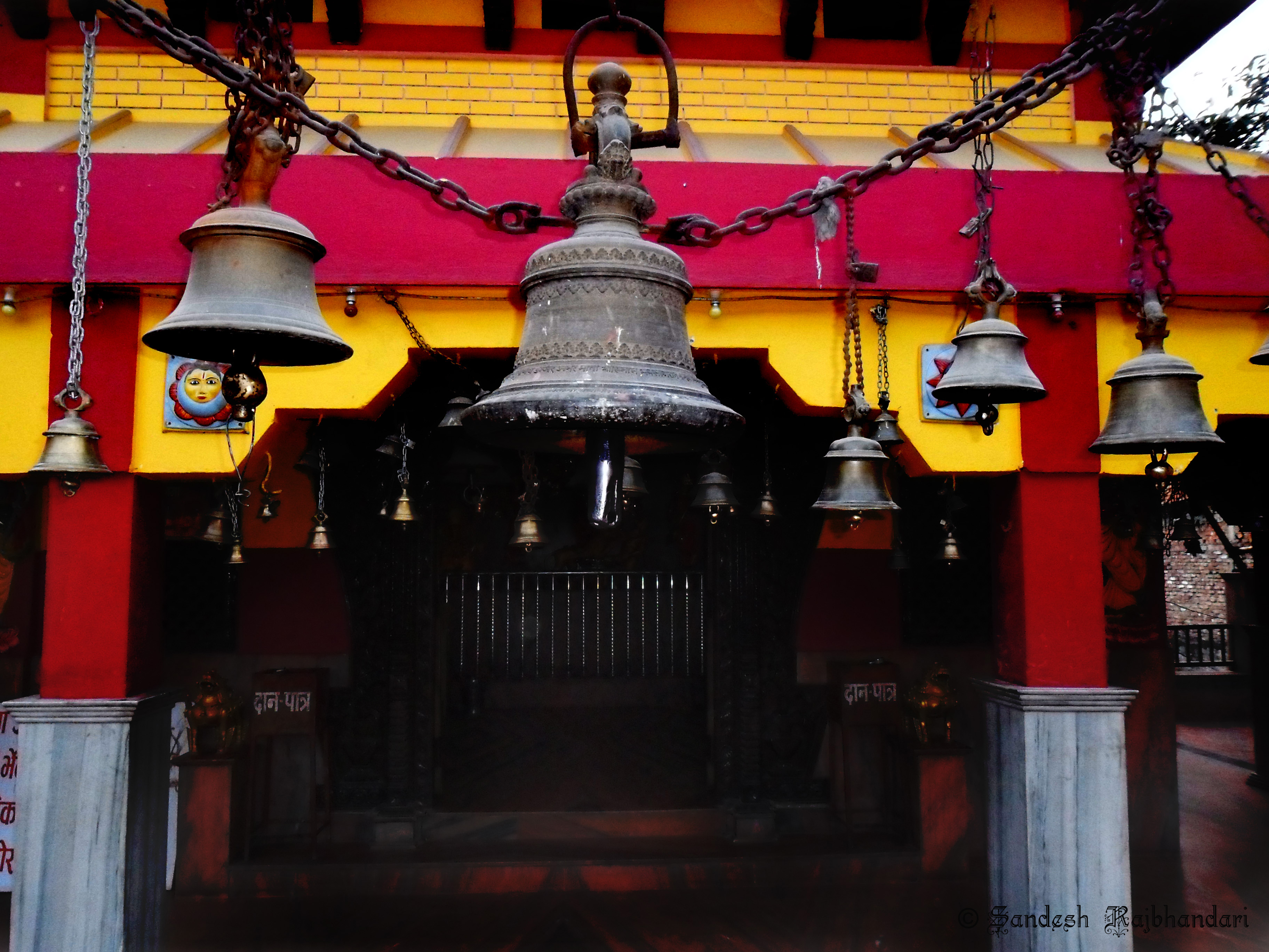 Kali Mandir is one of the famous temple of Biratngar.